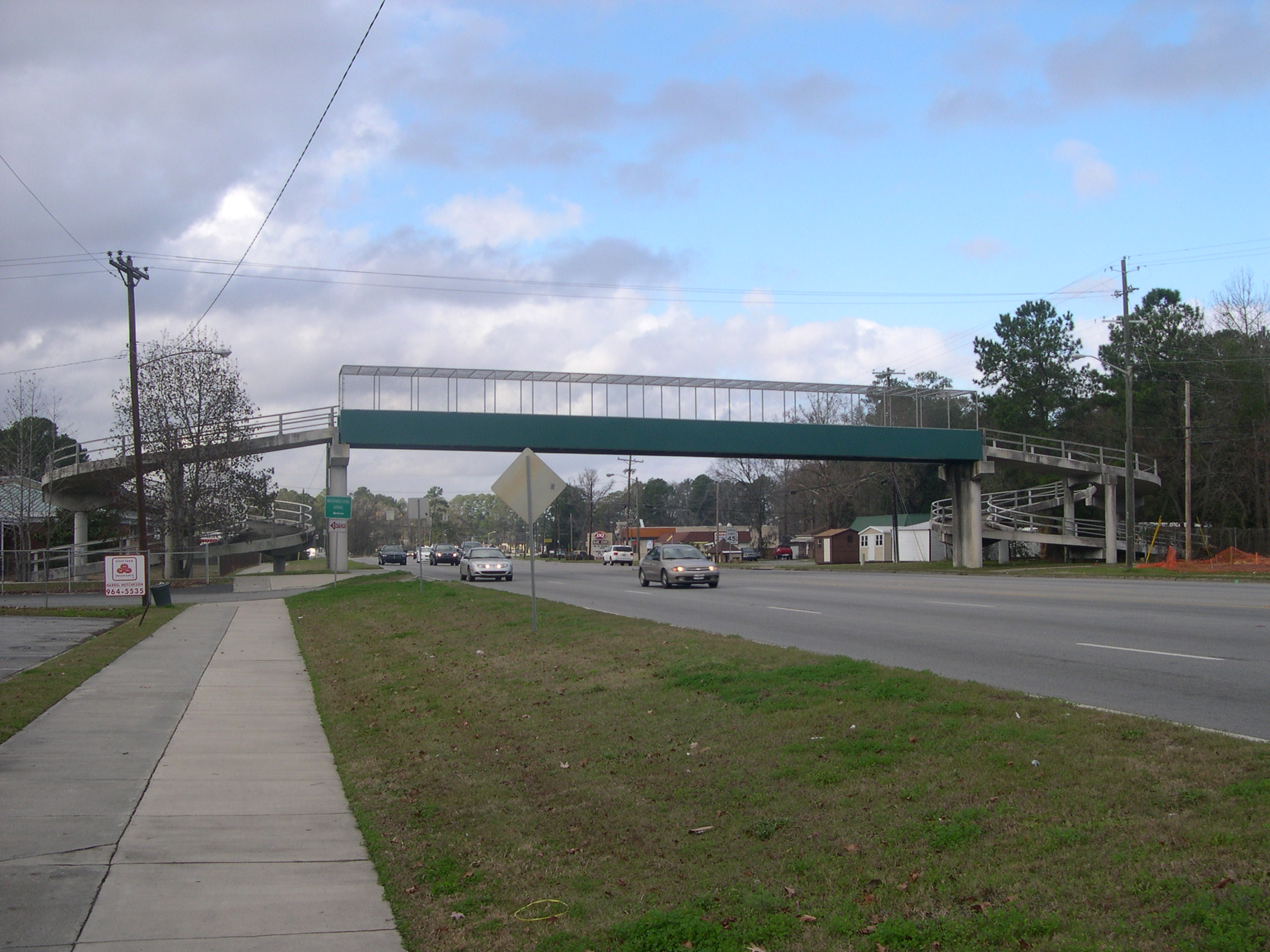 Rommel Avenue Catwalk, located near George A. Mercer Middle School in Garden City, Georgia